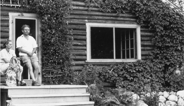 Painter Ernest Lindner and wife Bodil on steps of cottage on "Fairy Isle", their summer retreat at Emma Lake